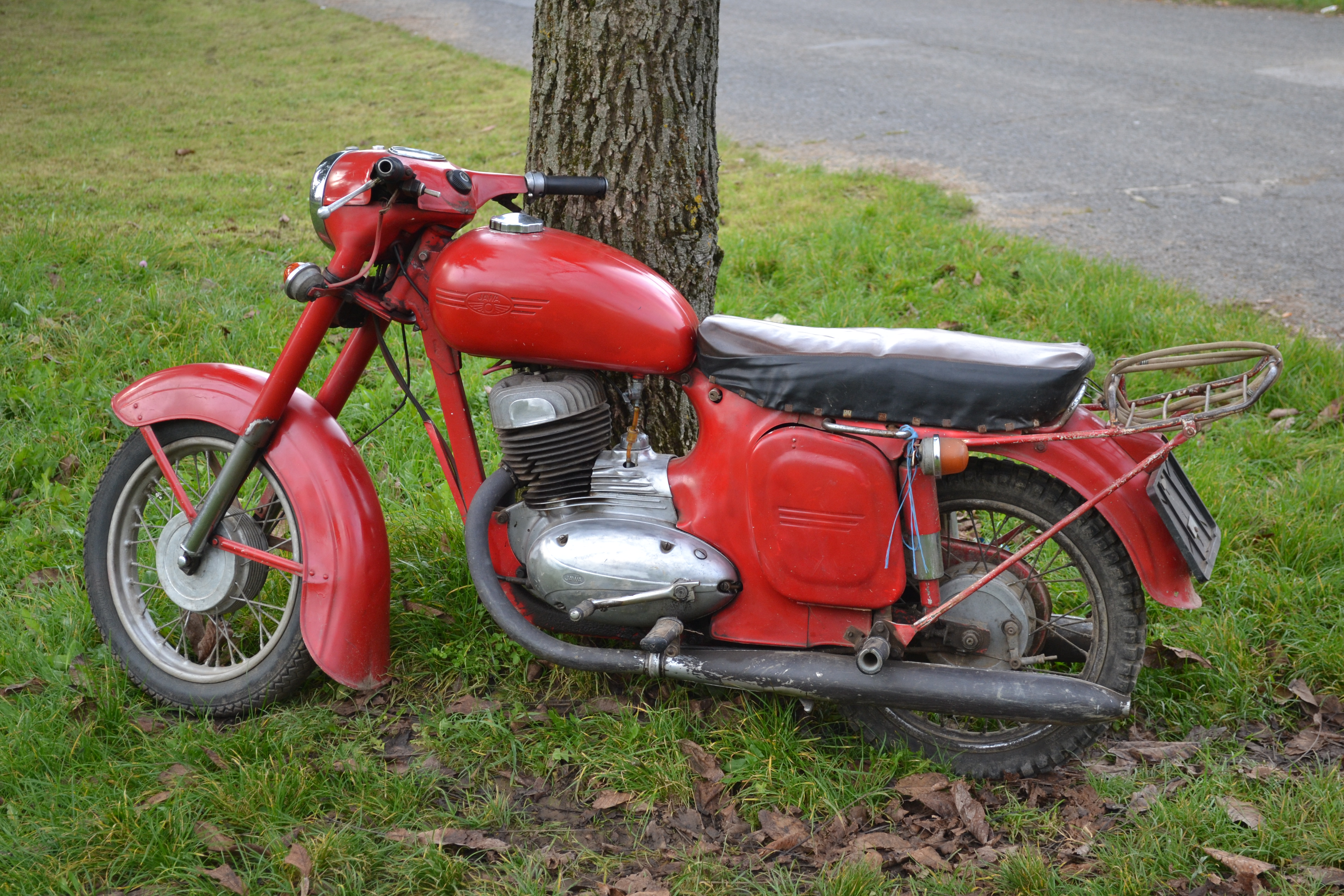 Motorcycle Jawa 250/353 in the village Lovinobaňa (Slovakia)